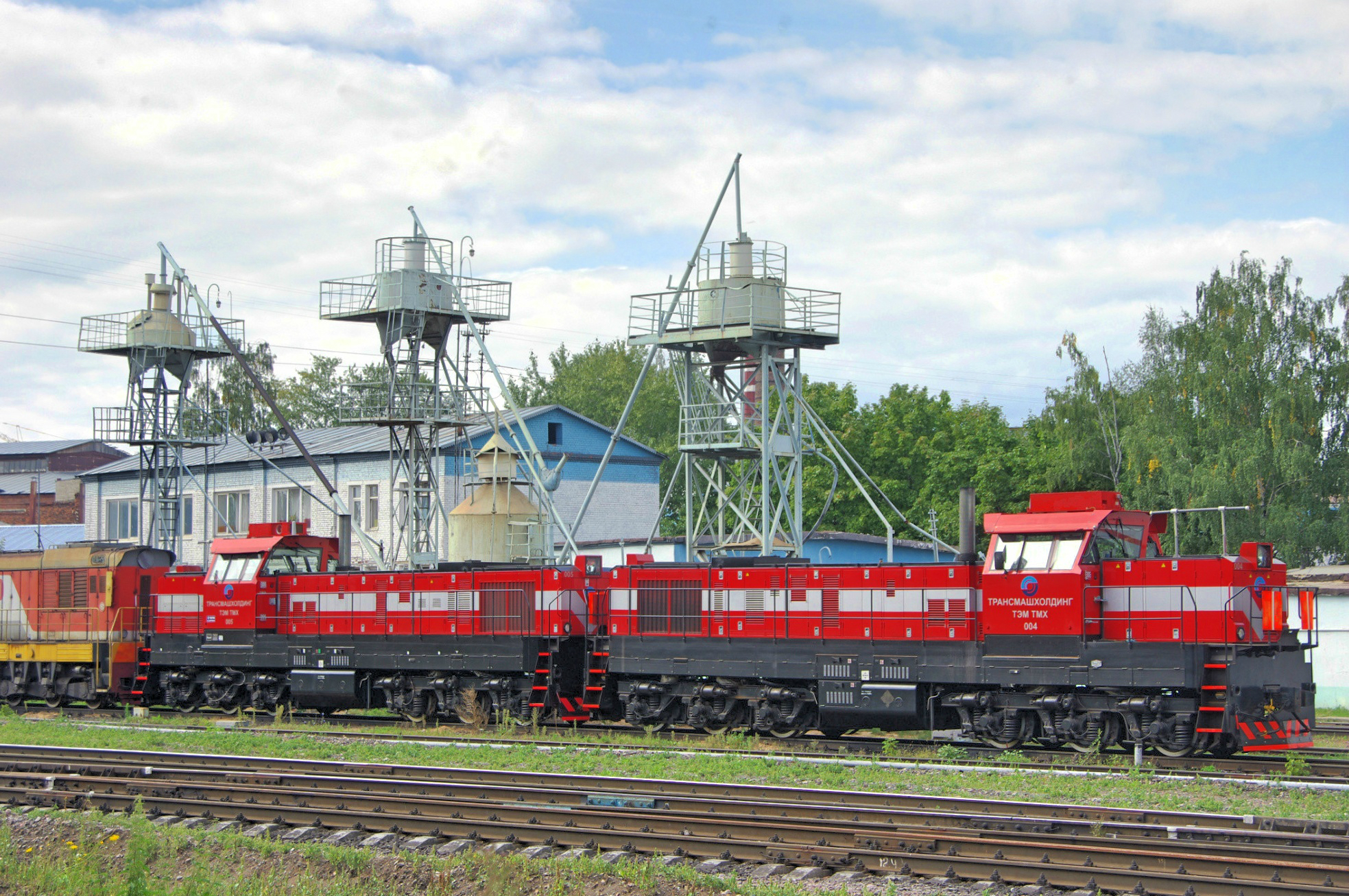 TEM-TMH-004 Fotor090801248